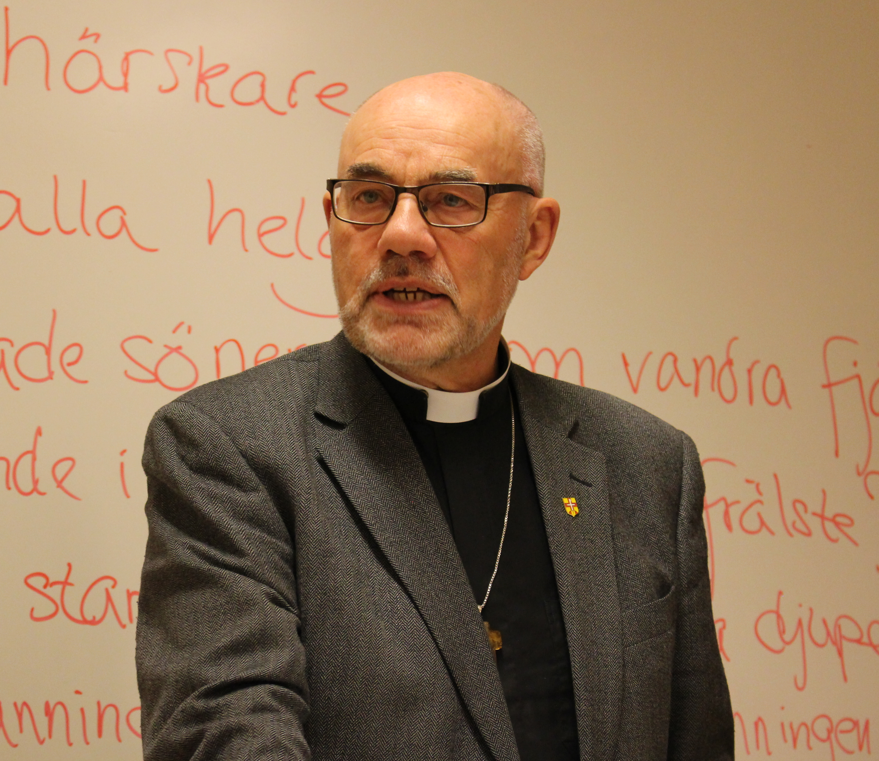 Bengt Birgersson.